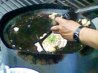 Cooking a botchien in Vietnam ( a traditional Chinese dish)